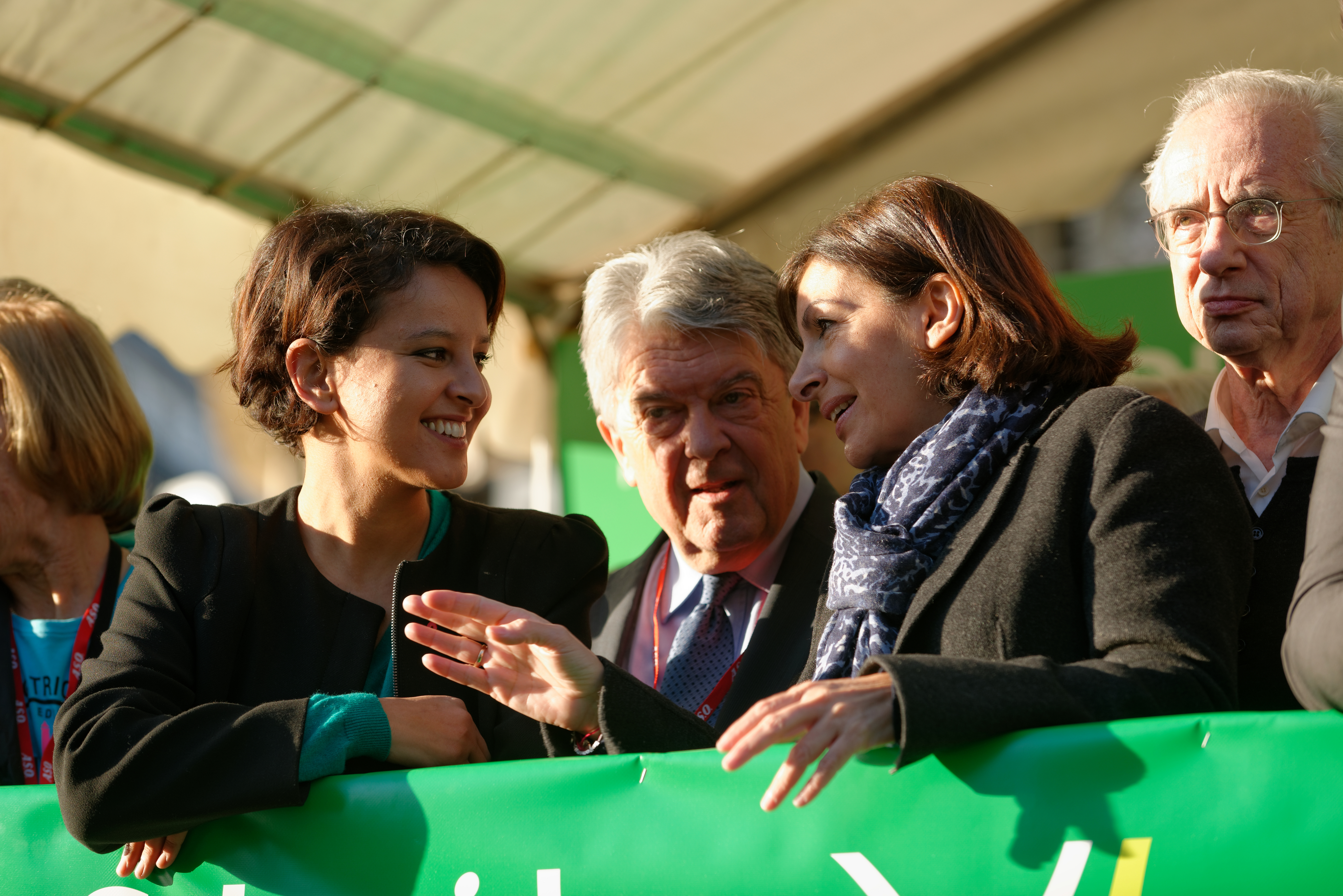 Sports minister Najat Vallaud-Belkacem (L) chats with Paris mayor Anne Hidalgo (R) before the start of the 2014 Paris Marathon.